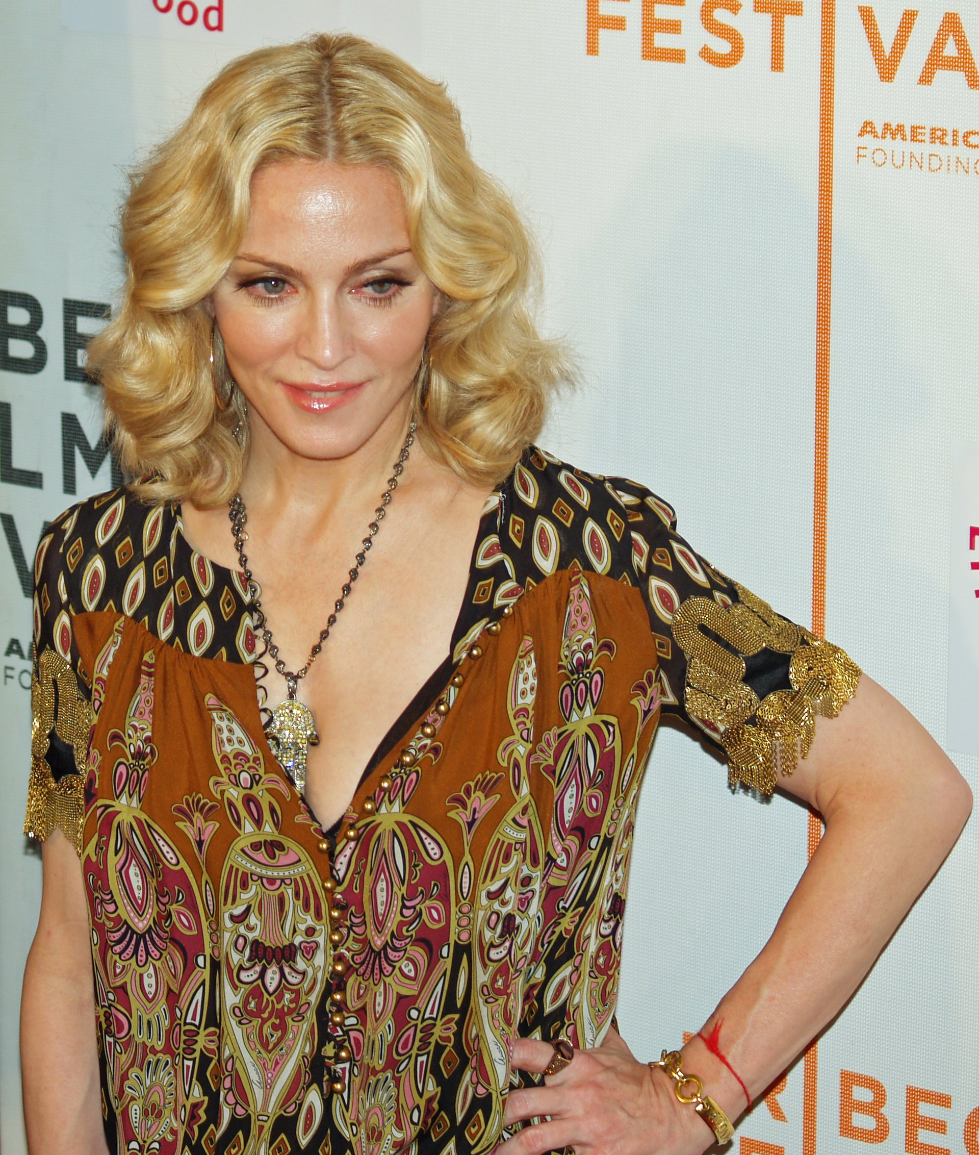 Madonna at the premiere of I Am Because We Are at the 2008 Tribeca Film Festival